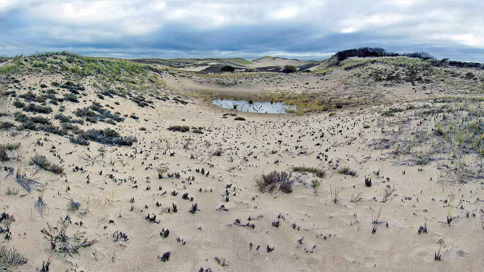 Image title: Dunes at Parker river national wildlife refuge Image from Public domain images website